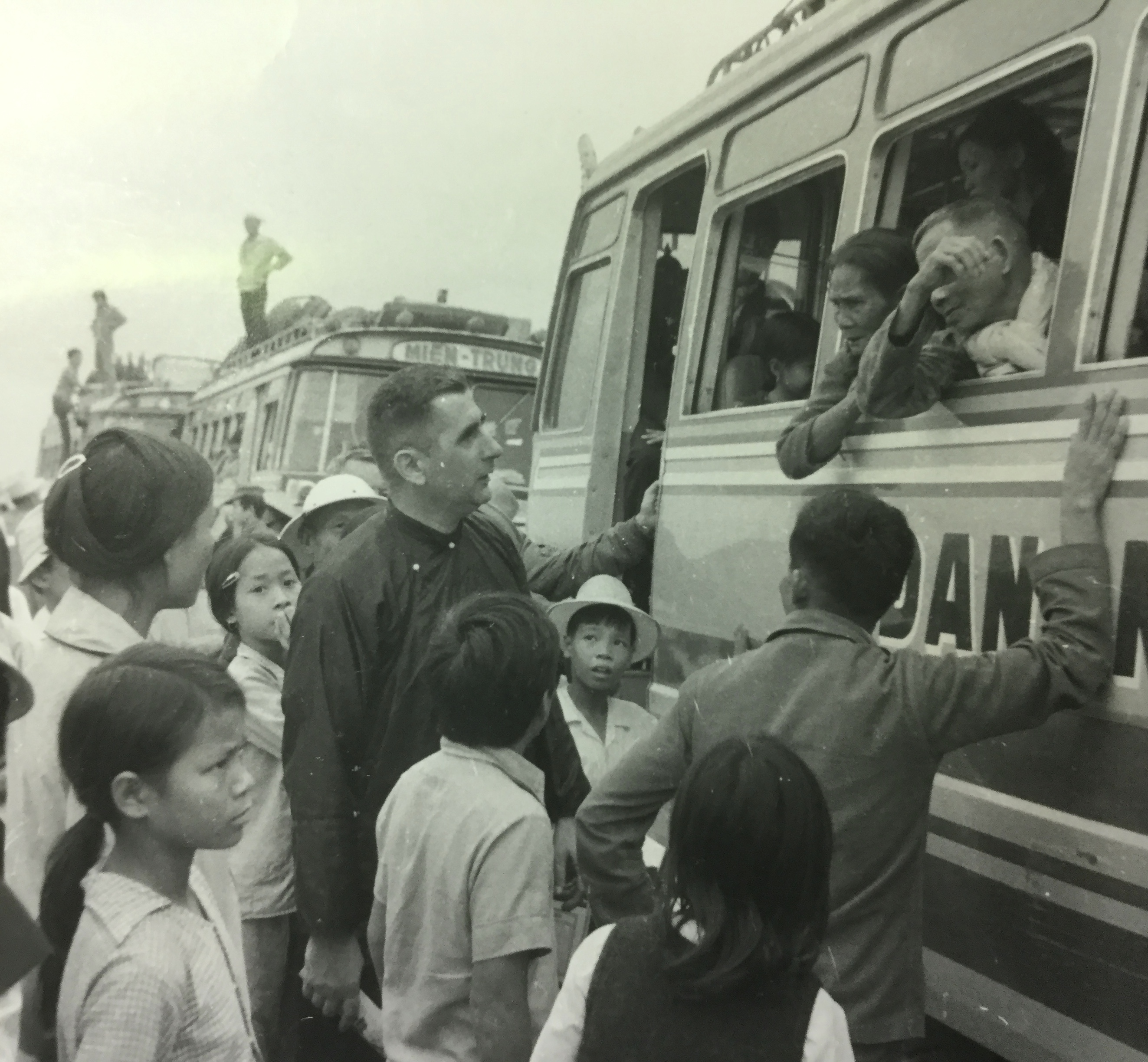 Picture taken from personal archive